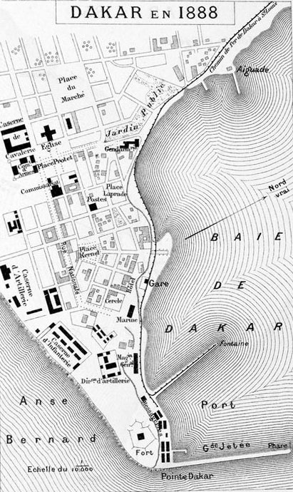 Dakar in 1888